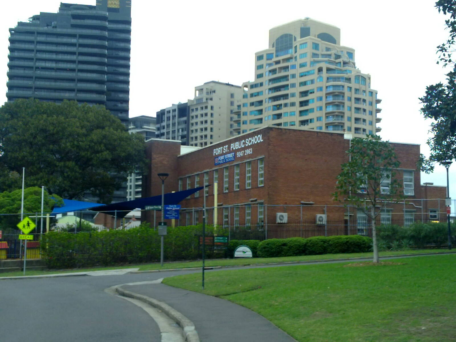 General view of "Fort Street Public School" building, from Upper Fort Street (Observatory Hill) looking south. Located at Millers Point, Sydney, NSW, Australia.